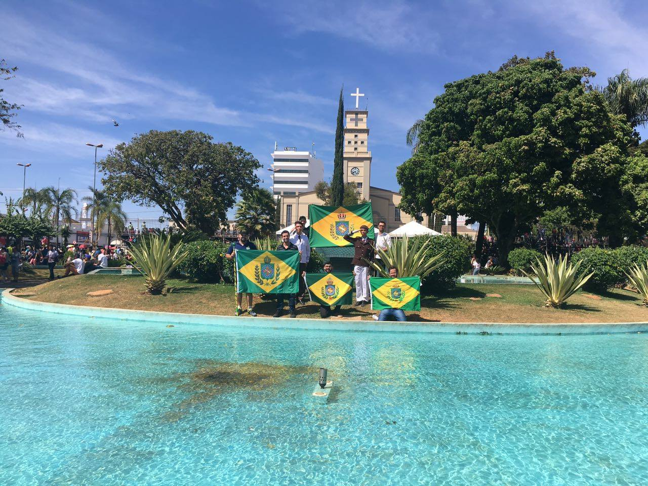 National "Bandeiraço" of the Independence in Anápolis, Goias, in 7th September 2017.